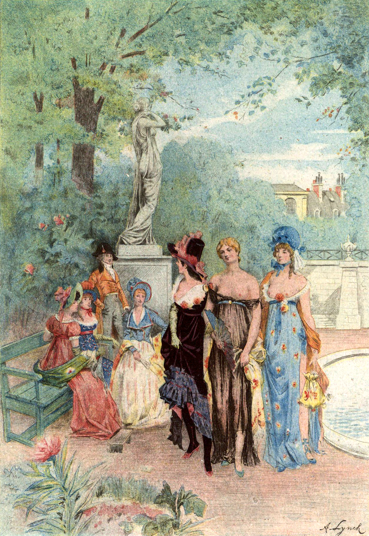 Three "merveilleuses" walk through the Jardin du Luxembourg in Paris.